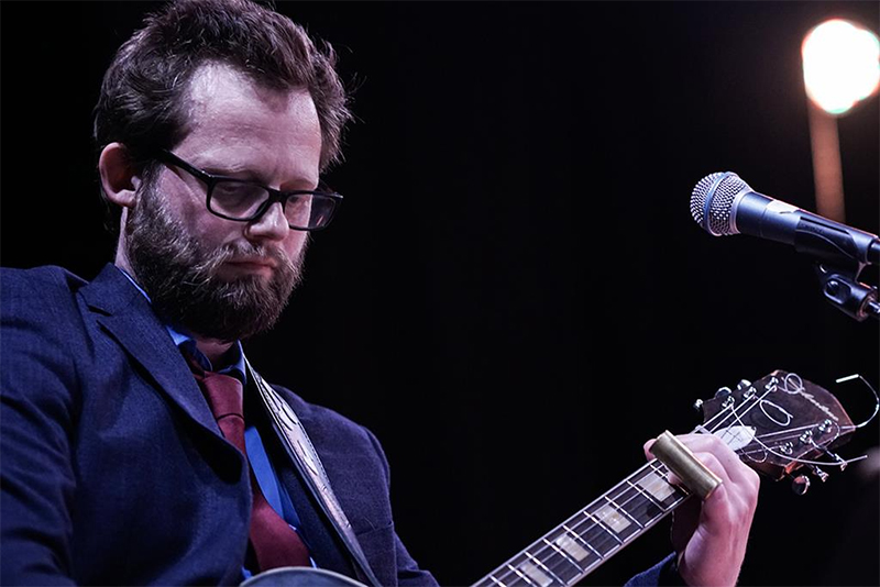 Kasper Bai at Aarhus Jazz Festival playing with Maluba Orchestra 2019